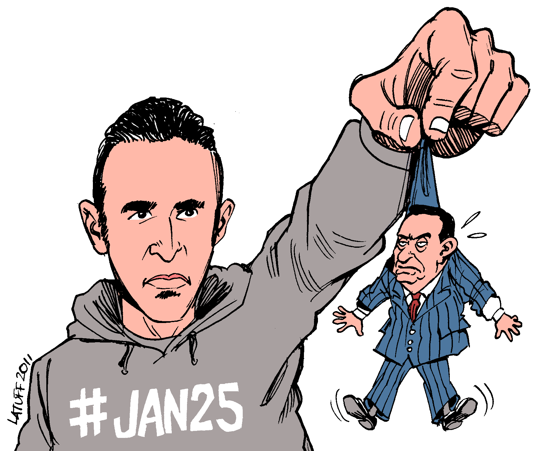 Khaled Mohamed Saeed holding up a tiny, flailing, stone-faced Hosni Mubarak by Carlos Latuff.